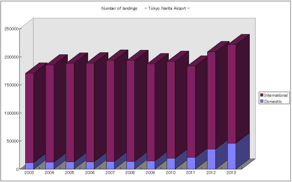 Number of landings at Tokyo Narita Airport.